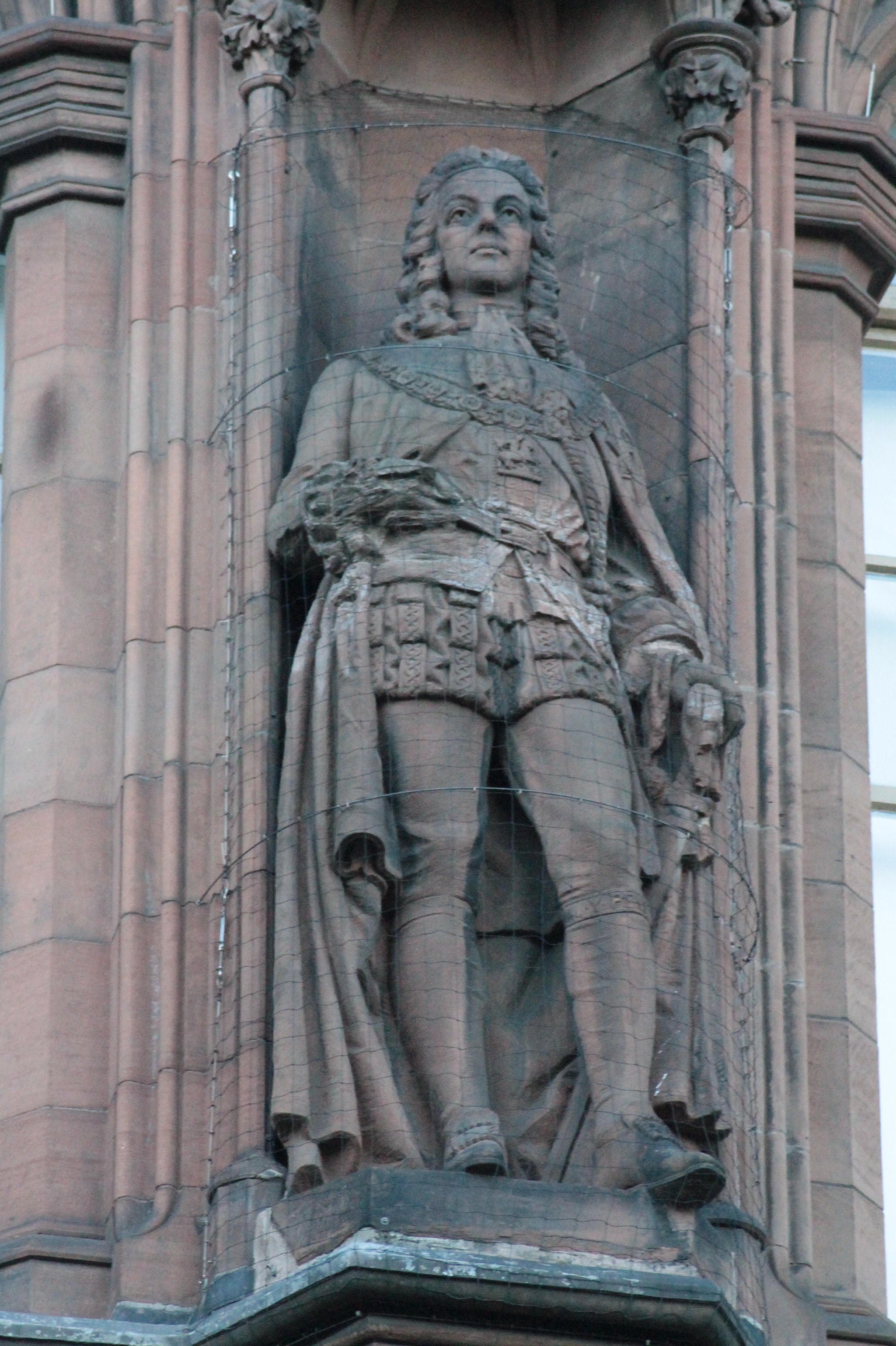 Statue of John Campbell, Duke of Argyll, Scottish National Portrait Gallery